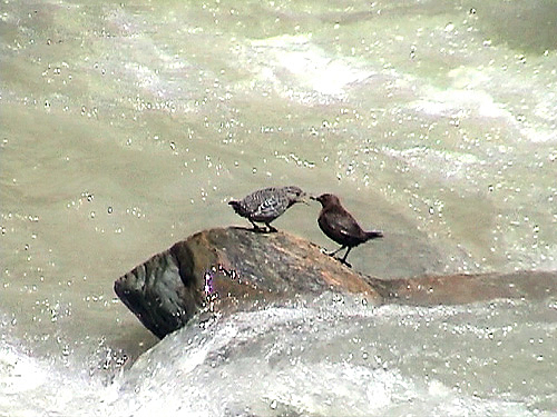 Brown Dipper Cinclus pallasii at Kasol (6500 ft.) in Kullu District of Himachal Pradesh, India.